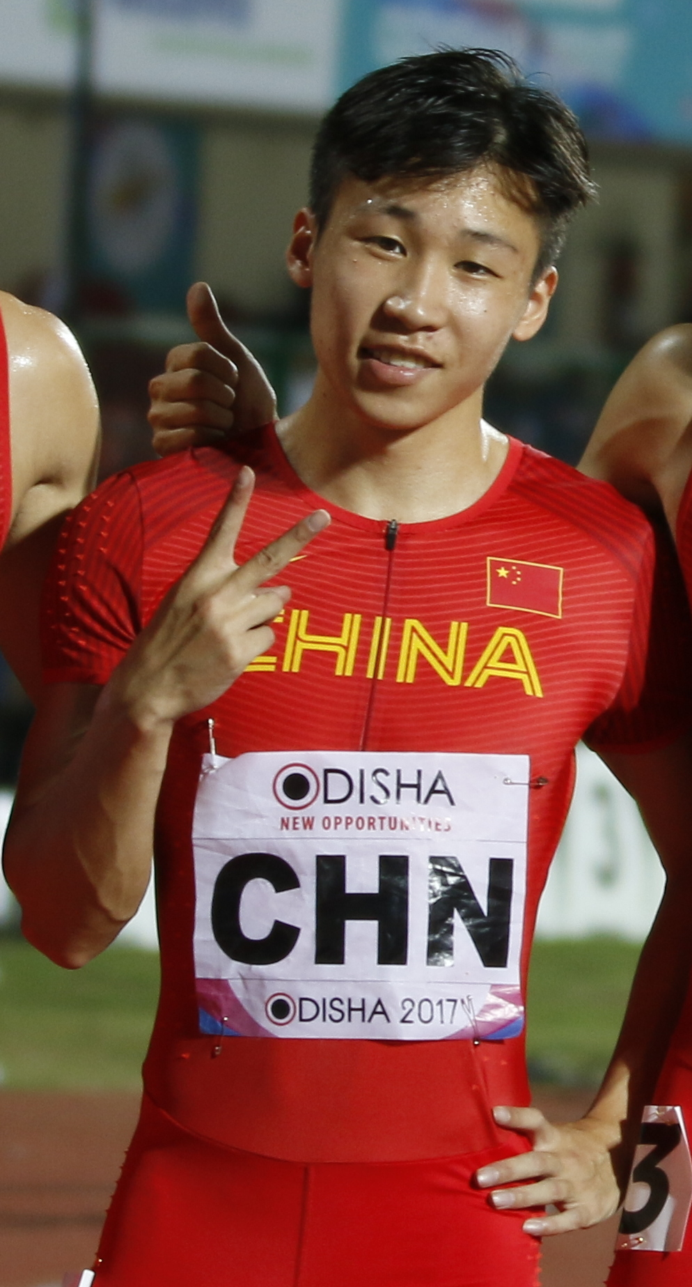 Tang Xingqiang during 22nd Asian Athletics Championships in Bhubaneswar.